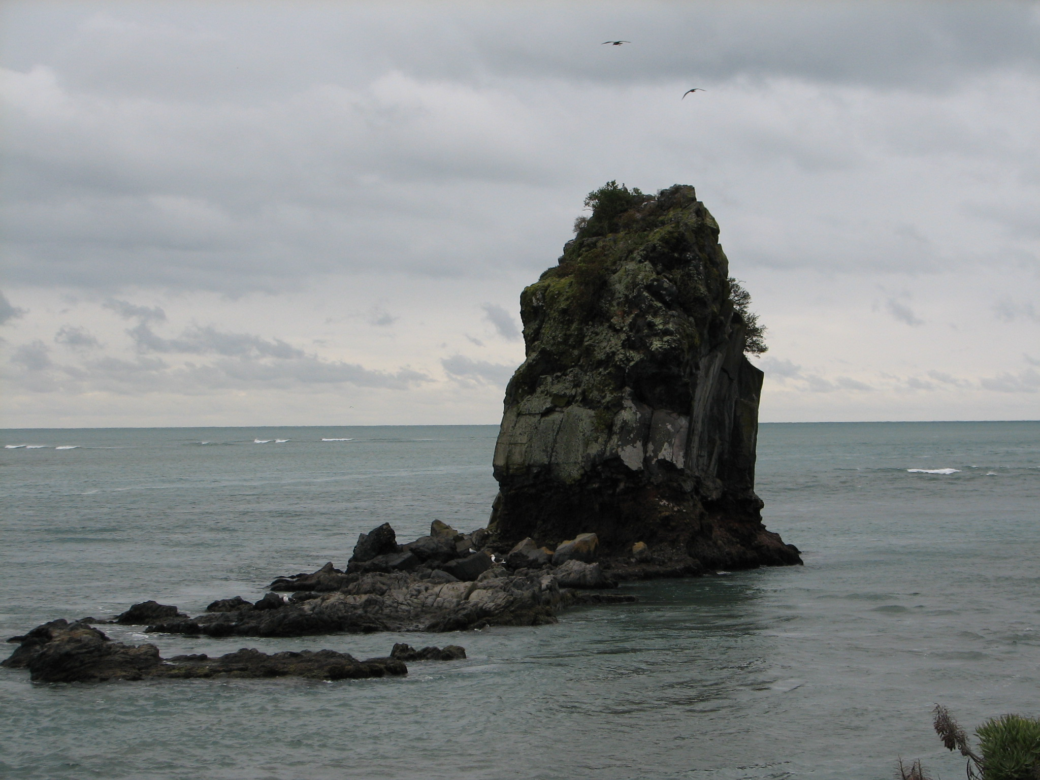 Photo of Shag Rock Rapanui at Sumner Christchurch New Zealand